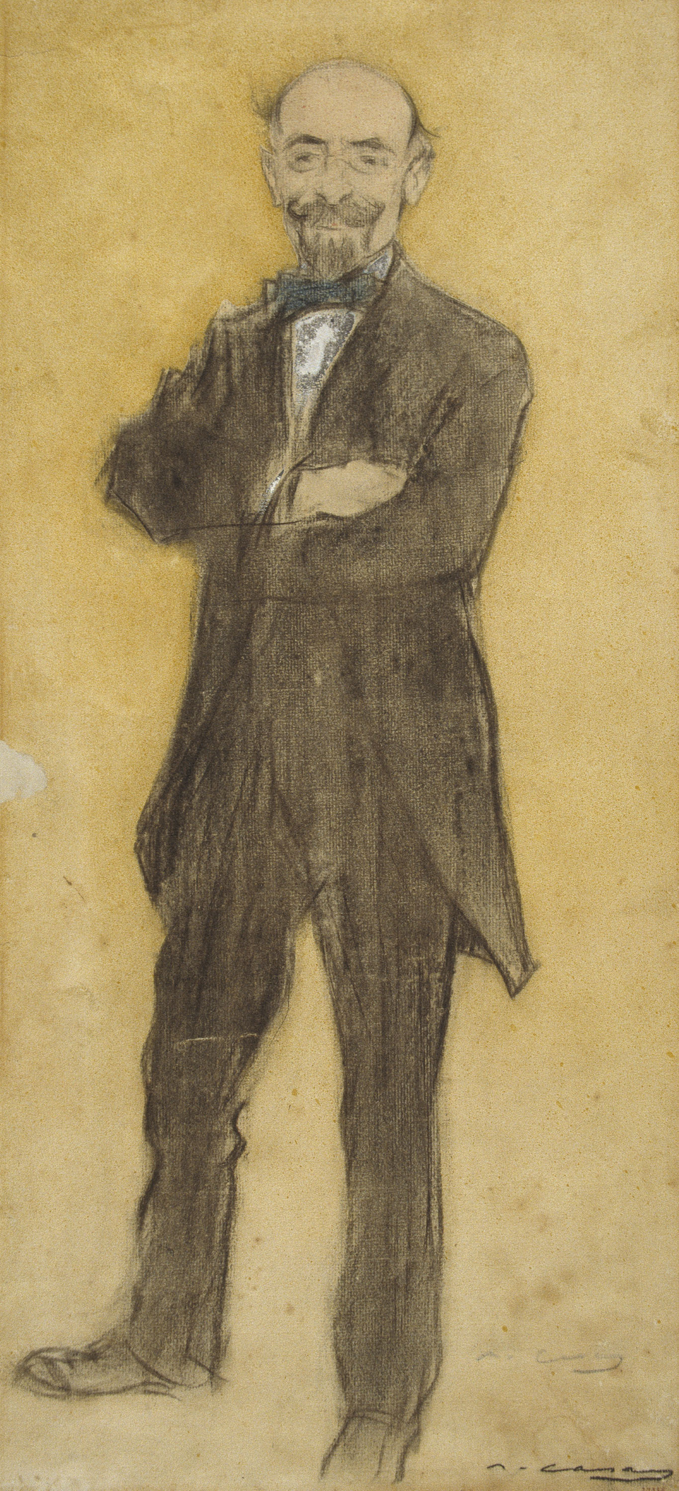 Portrait by Ramon Casas conserved at MNAC in Barcelona.